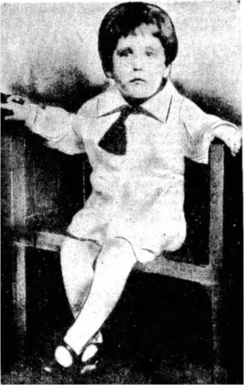 Homer Lemay, a six-year-old boy who could possibly be the identity to an unidentified murder victim from Wisconsin, USA.